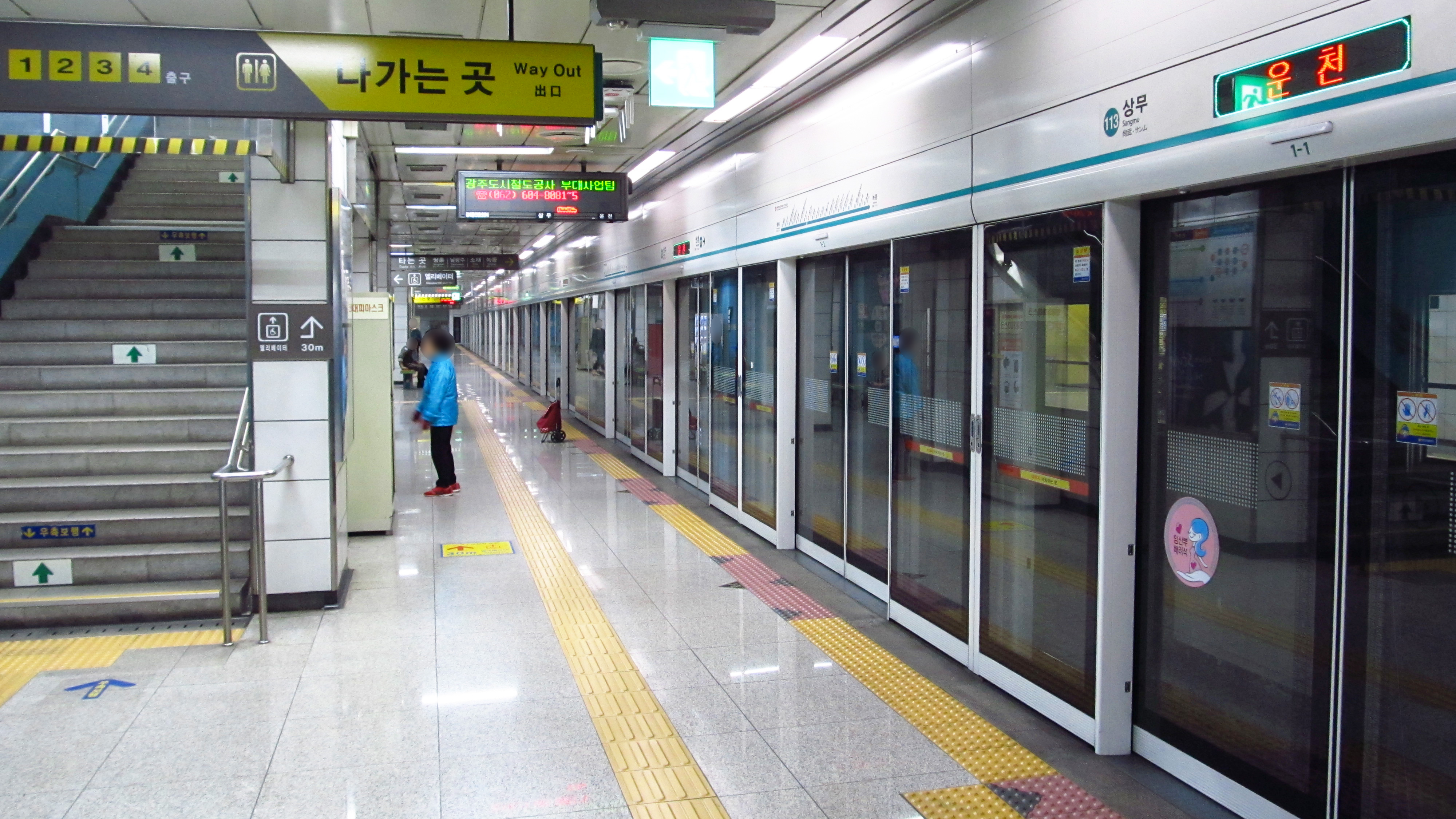 The platform at Uncheon Station on Gwangju Metro Line 1 in Seo-gu, Gwangju, Republic of Korea(South Korea)